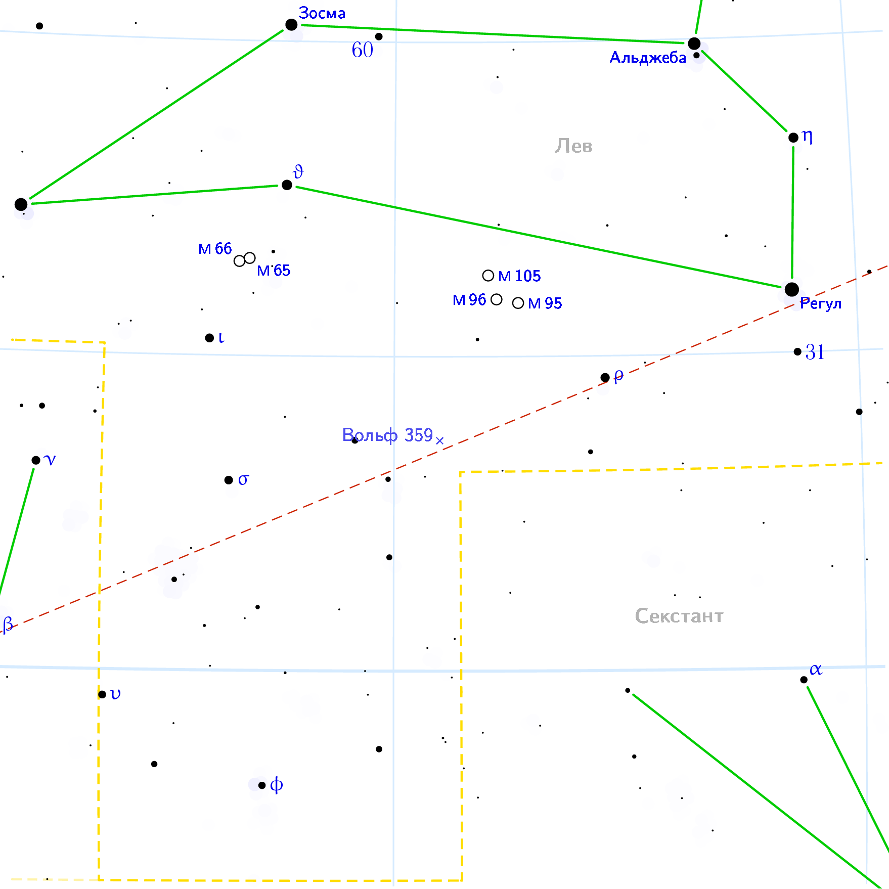 Wolf 359 position map on Russian